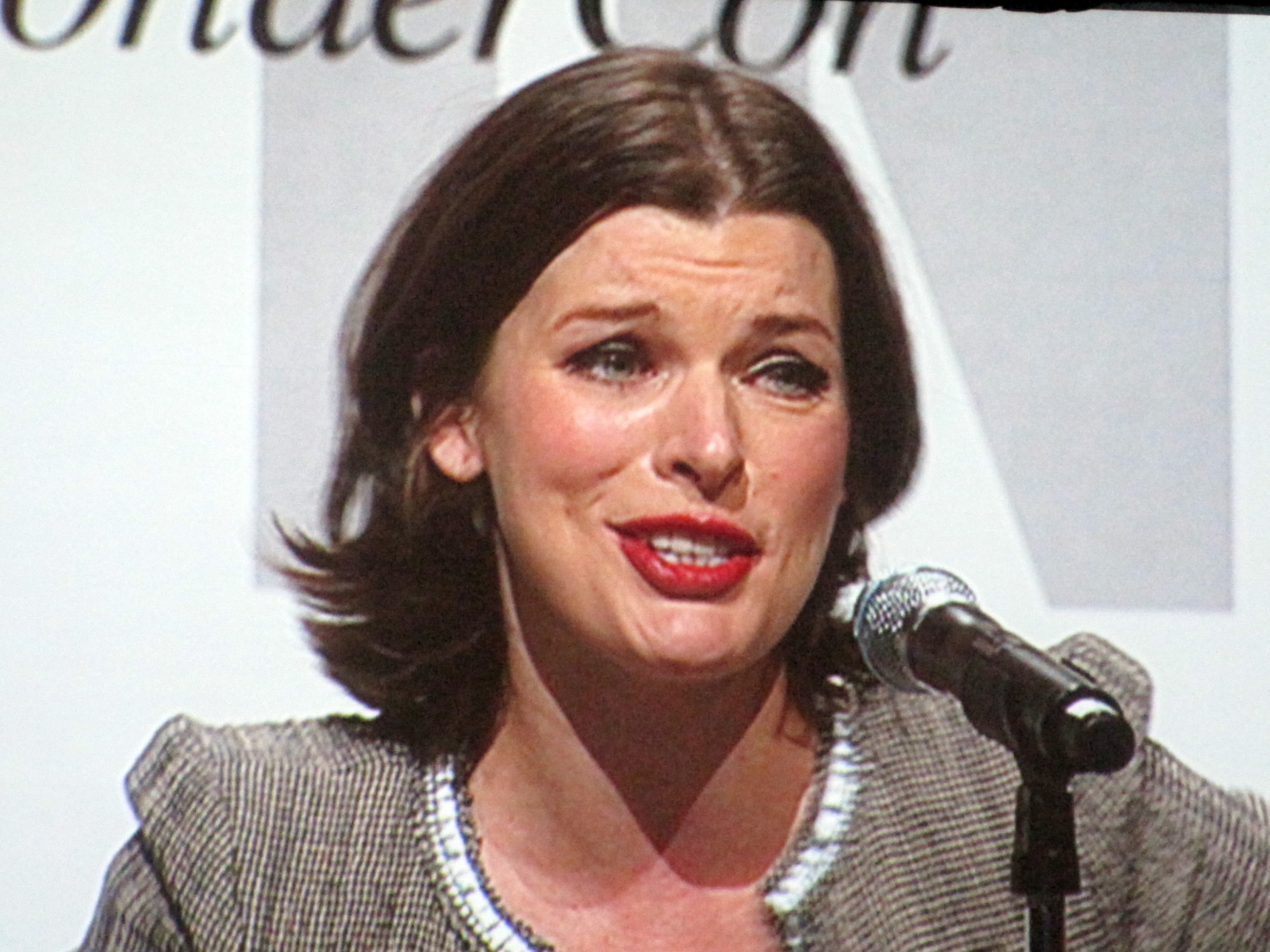 Actress Milla Jovovich participating in a panel on Resident Evil: Afterlife at WonderCon 2010.